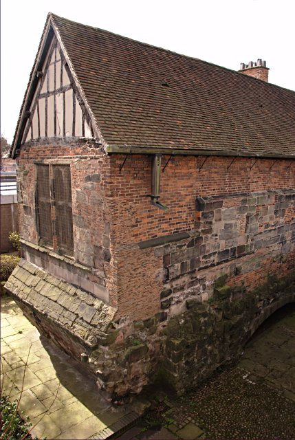 Chapel of St Mary on the Bridge in Derby near where Nicholas Garlick died. This historic grade 1 listed building is one of six surviving bridge chapels in the country. It was built in the 14th century, when St Mary's bridge was the only river crossing in Derby. The original bridge was replaced in the 18th century, and nowadays the dual carriageway Derby ring road crosses the river immediately behind the chapel. On 15th July 1588 three catholic priests were hanged here. The chapel was restored in 1930 is still in use.